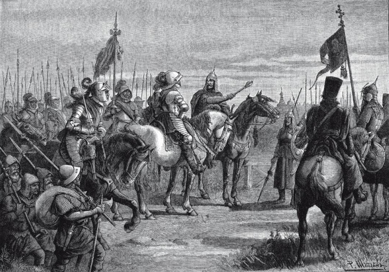 Prince Mikhail Skopin-Shuisky meets the Swedish commander De la Gardie near Novgorod in 1609